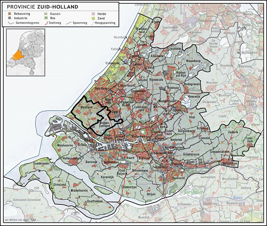 map of the municipality Westland and Midden-Delfland in the Dutch province of South Holland